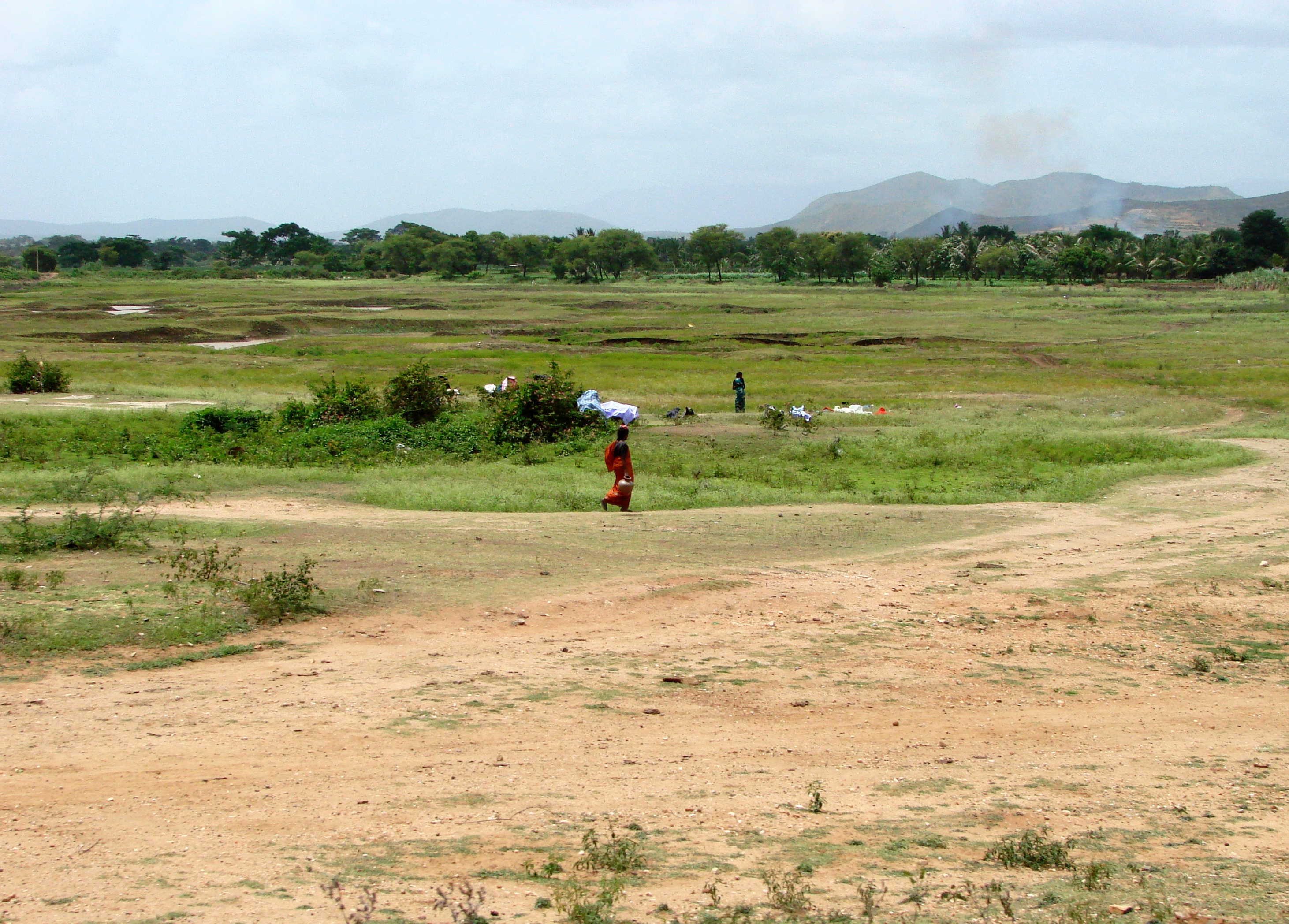 Countryside near Mysore, India. June 2008.